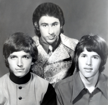 Rorschach, 1973